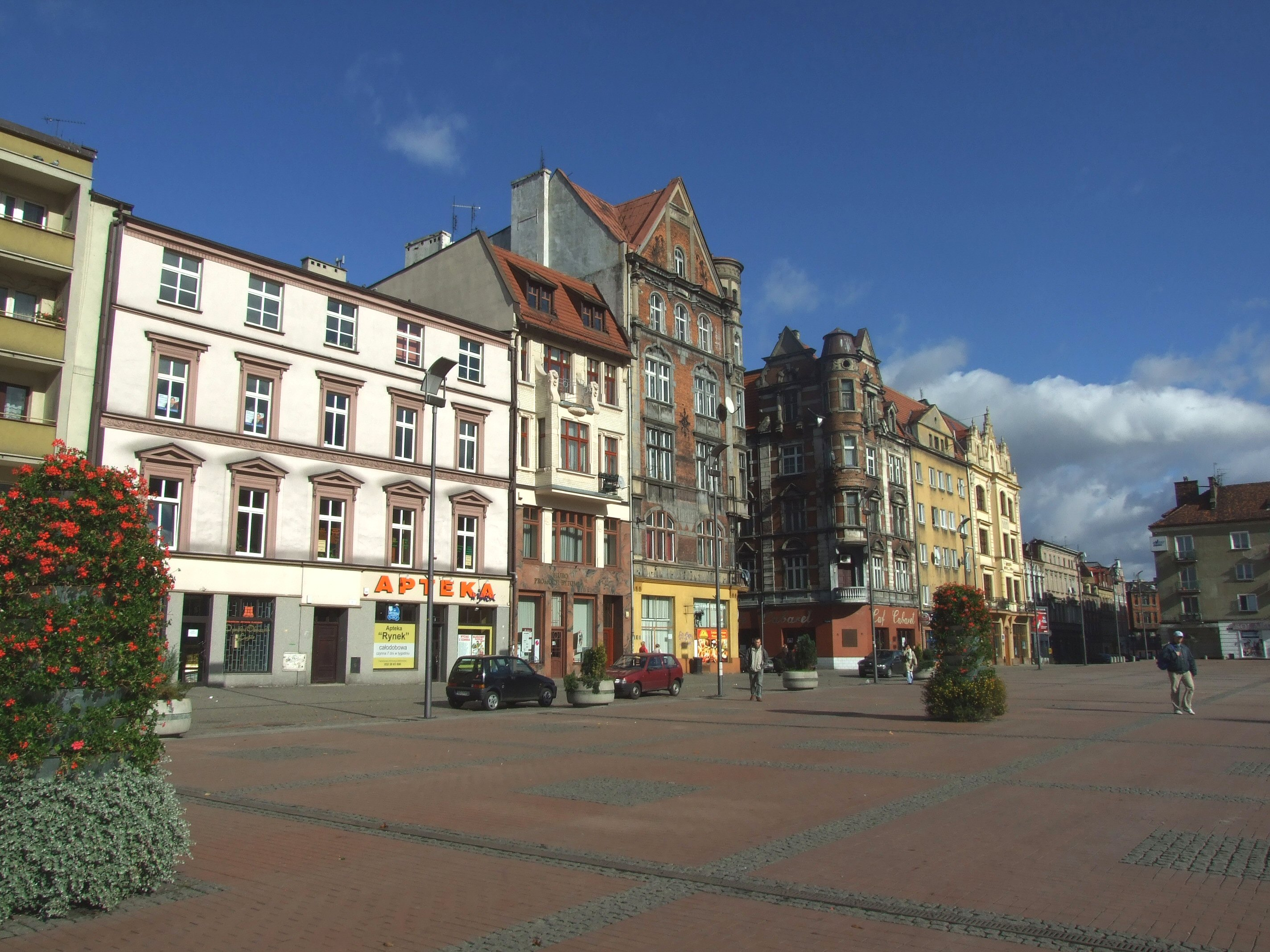 Market square in Bytom.